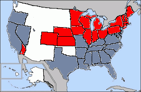 Elections 1880 results by state